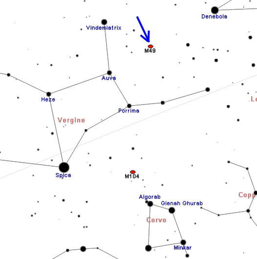 M49